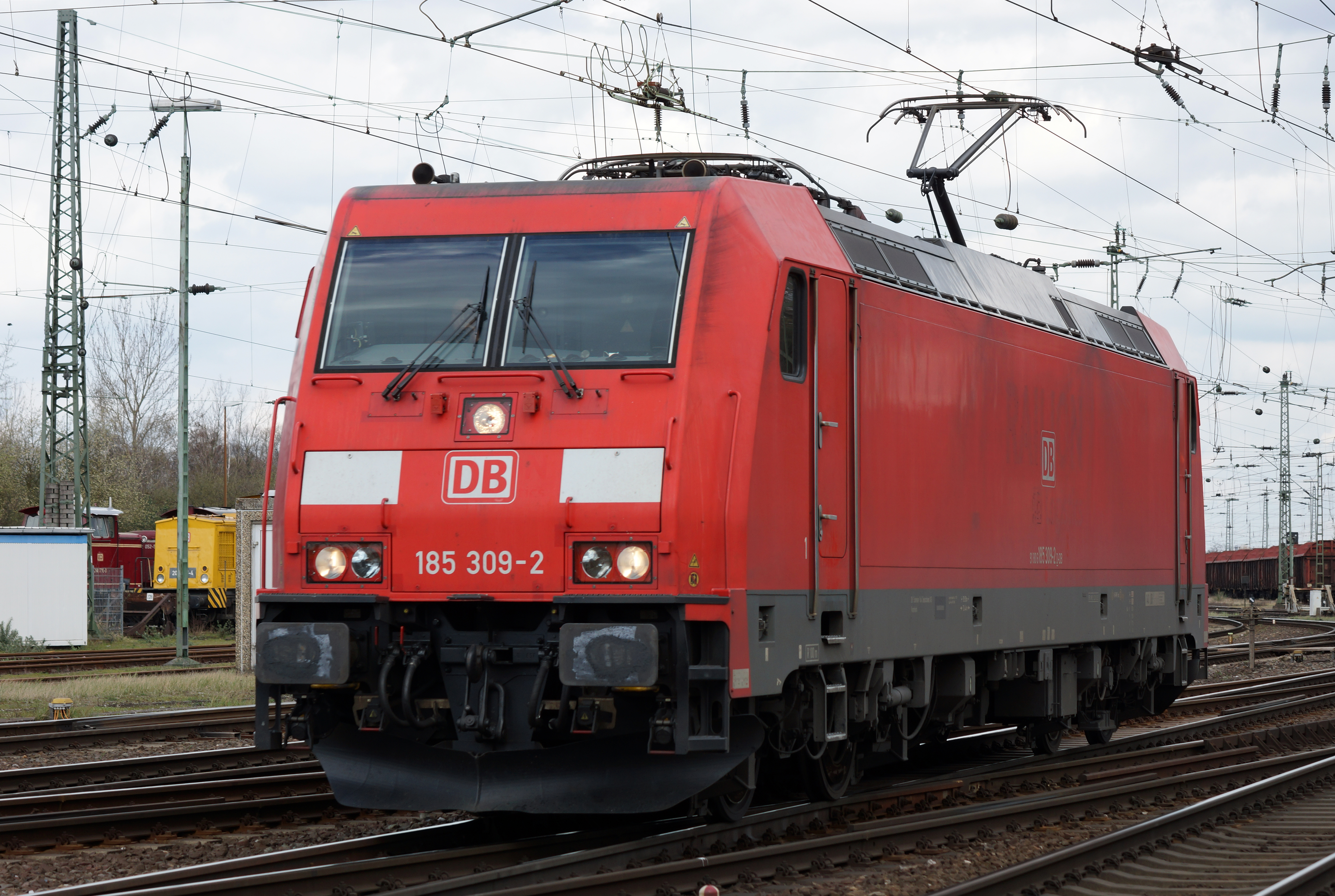 DBAG 185 309-2 in the near of the marshalling yard Köln-Kalk Nord